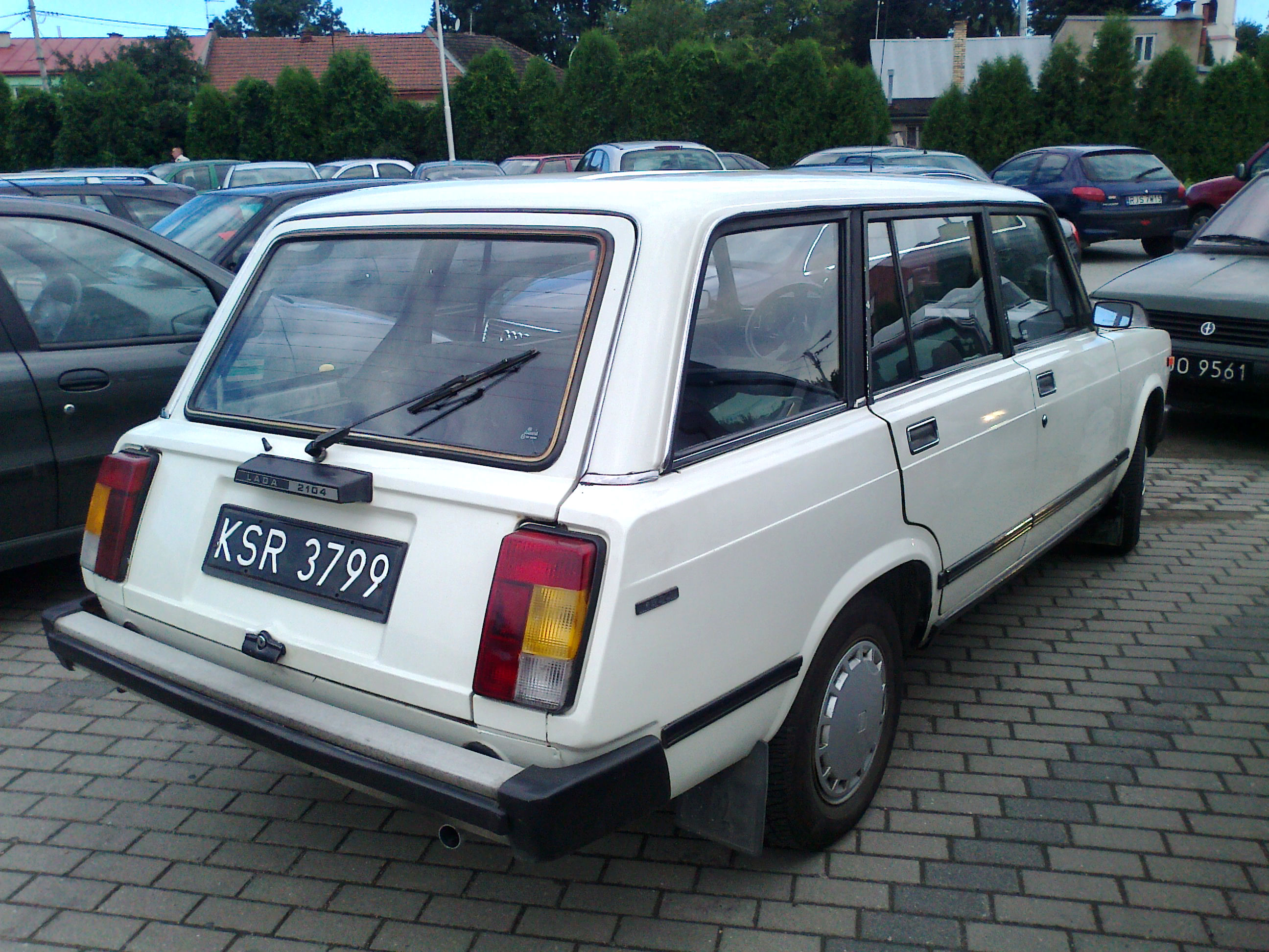 White Lada 21043 1500 station wagon seen in Jasło, Poland.